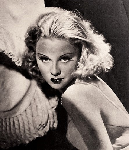 Mary Carlisle